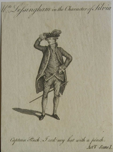 Mrs Lessingham as the character Silvia 10.7 x 7.2 cm (whole object) O'D 7: full length, face turned to left, in male attire, left hand on hip, right raised to plumed hat. Vignette.